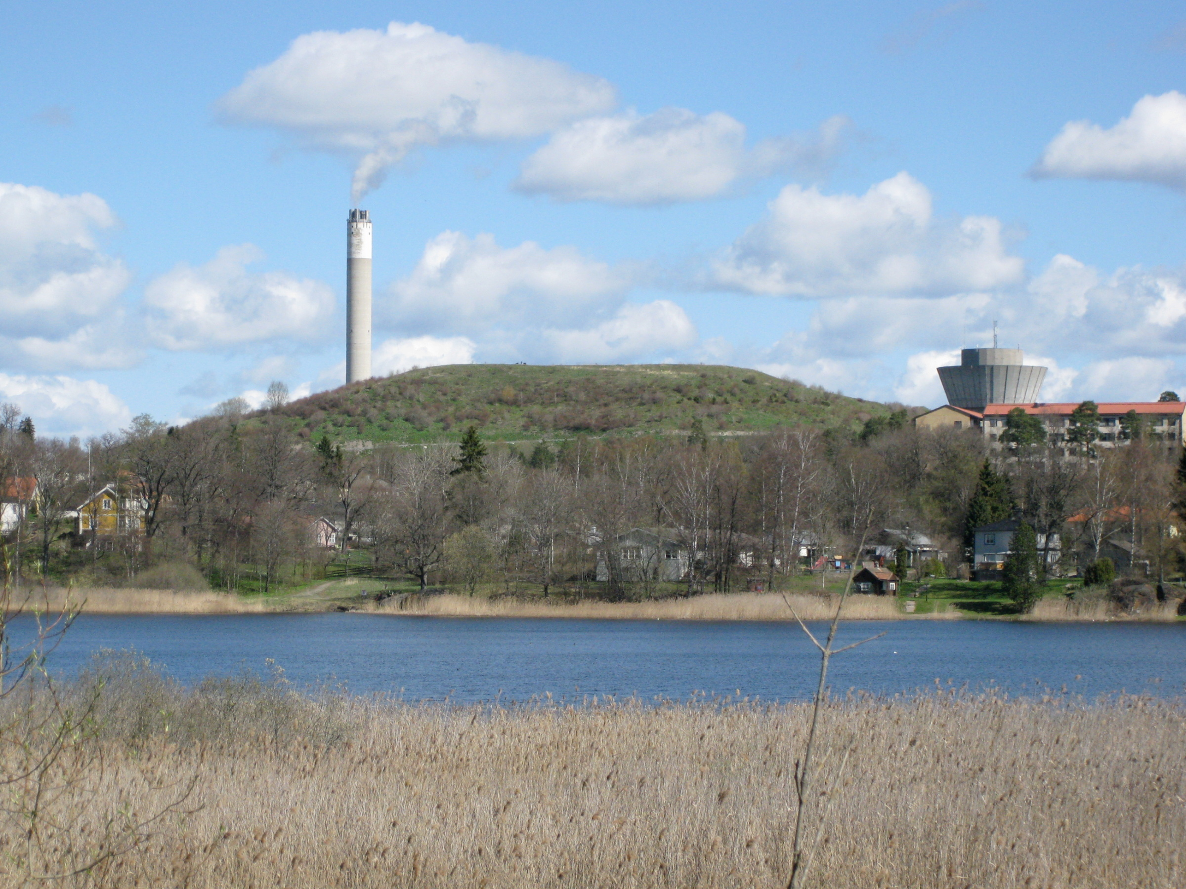 The hill Högdalstoppen, Högdalen, southern Stockholm, Sweden.